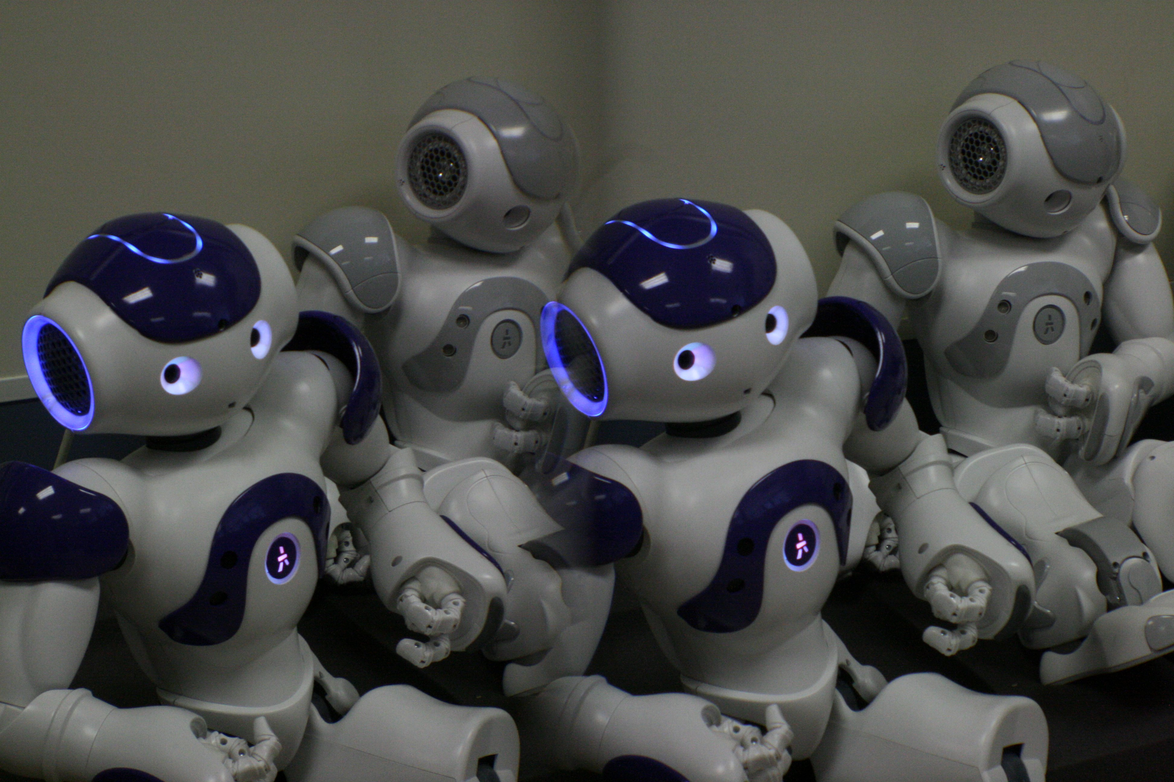 Nao robot demo, Jaume University.